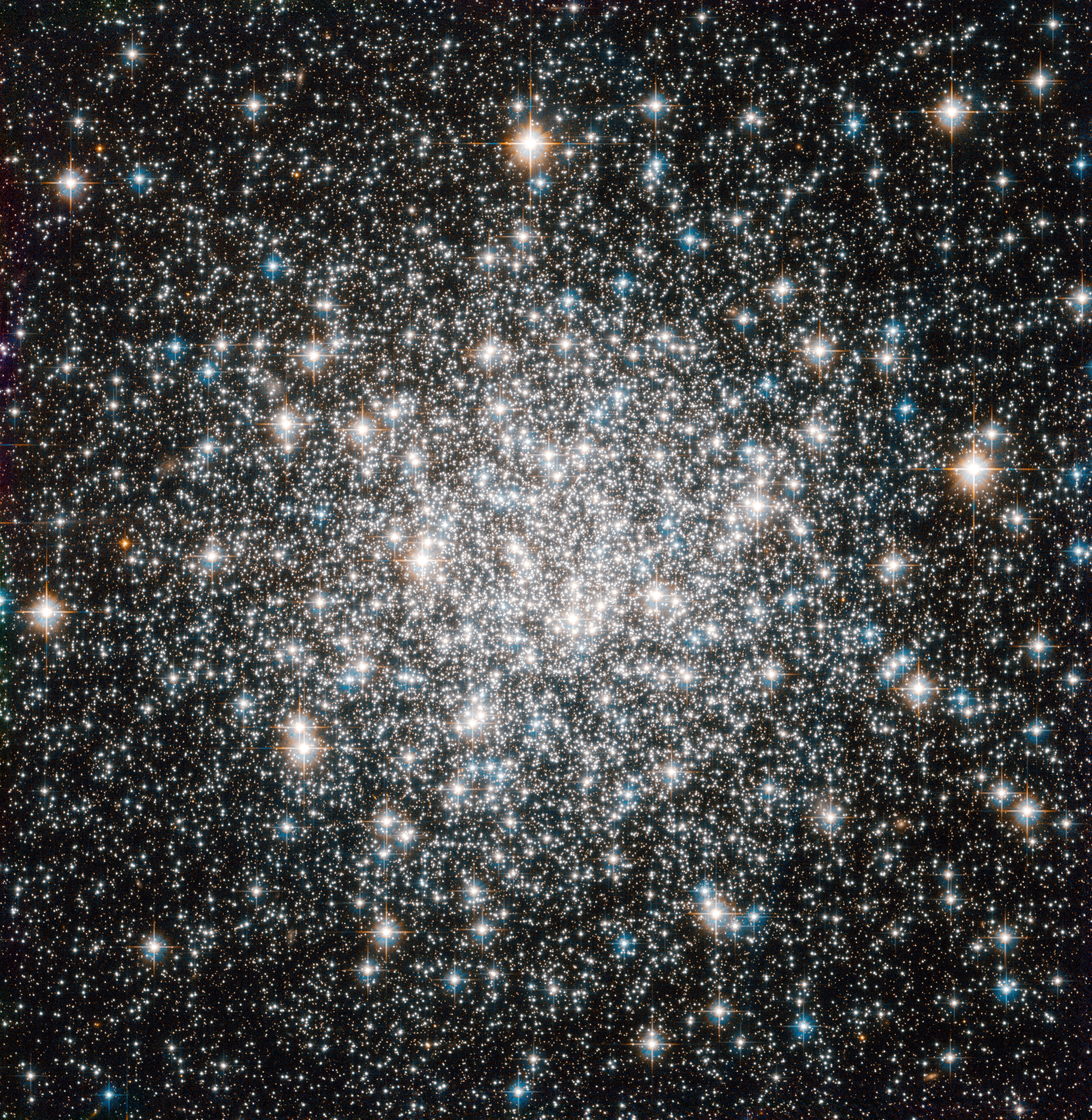 The NASA/ESA Hubble Space Telescope offers this delightful view of the crowded stellar encampment called Messier 68, a spherical, star-filled region of space known as a globular cluster. Mutual gravitational attraction amongst a cluster’s hundreds of thousands or even millions of stars keeps stellar members in check, allowing globular clusters to hang together for many billions of years. Astronomers can measure the ages of globular clusters by looking at the light of their constituent stars. The chemical elements leave signatures in this light, and the starlight reveals that globular clusters' stars typically contain fewer heavy elements, such as carbon, oxygen and iron, than stars like the Sun. Since successive generations of stars gradually create these elements through nuclear fusion, stars having fewer of them are relics of earlier epochs in the Universe. Indeed, the stars in globular clusters rank among the oldest on record, dating back more than 10 billion years. More than 150 of these objects surround our Milky Way galaxy. On a galactic scale, globular clusters are indeed not all that big. In Messier 68's case, its constituent stars span a volume of space with a diameter of little more than a hundred light-years. The disc of the Milky Way, on the other hand, extends over some 100 000 light-years or more. Messier 68 is located about 33 000 light-years from Earth in the constellation Hydra (The Female Water Snake). French astronomer Charles Messier notched the object as the sixty-eighth entry in his famous catalogue in 1780. Hubble added Messier 68 to its own impressive list of cosmic targets in this image using the Wide Field Camera of Hubble’s Advanced Camera for Surveys. The image, which combines visible and infrared light, has a field of view of approximately 3.4 by 3.4 arcminutes.